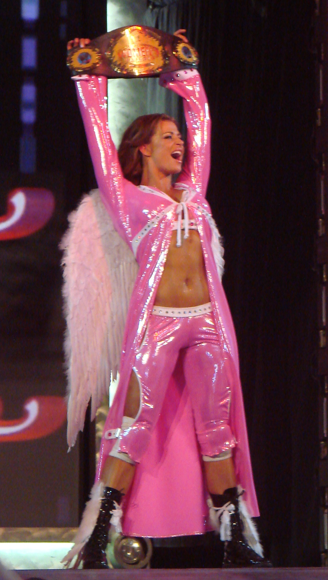 Candice Michelle at WWE No Mercy 2007. Allstate Arena, Rosemont, Illinois